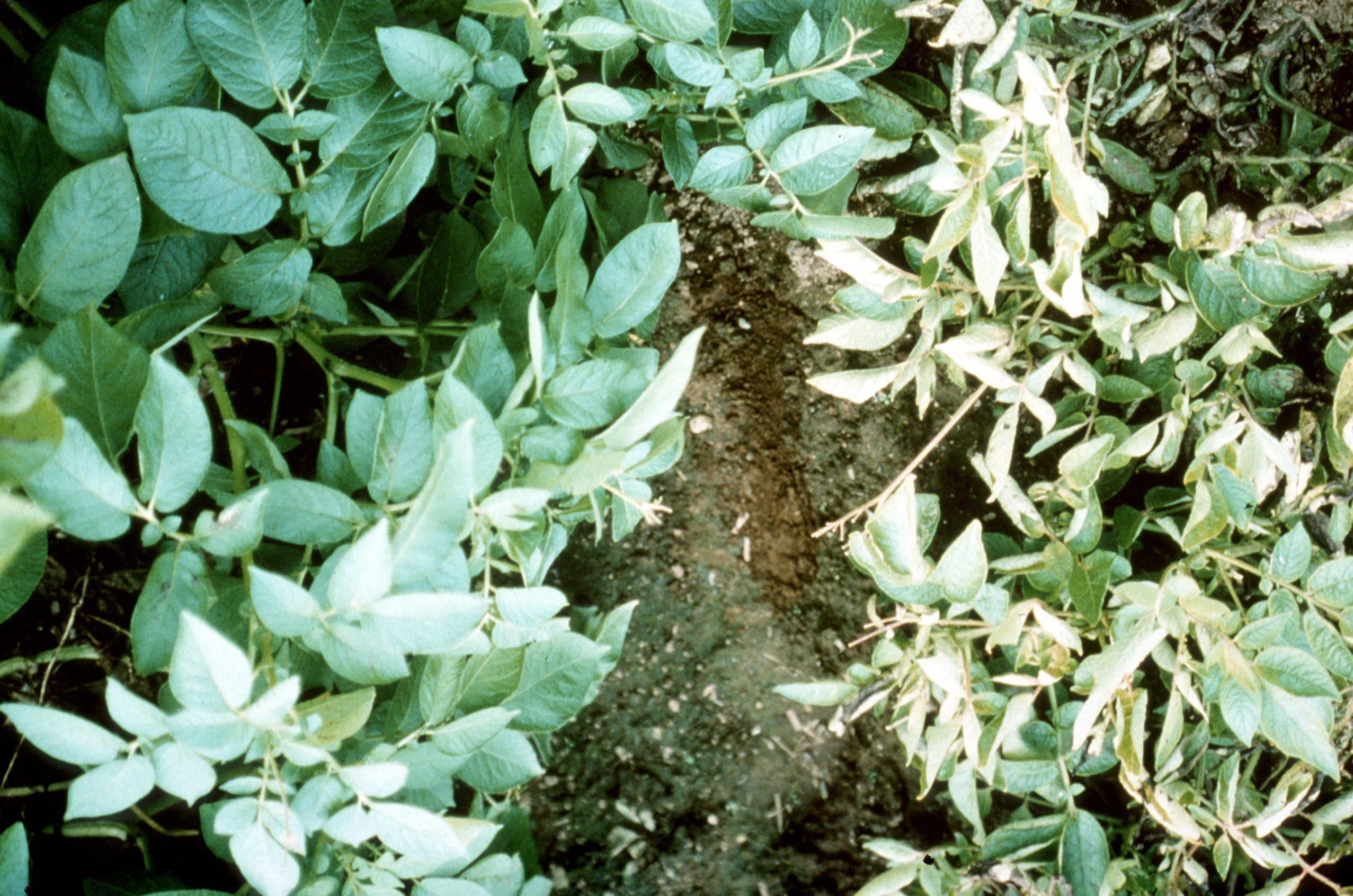 Genetically modified potato plants (left) are able to withstand virus diseases which can devastate conventional plants (right).